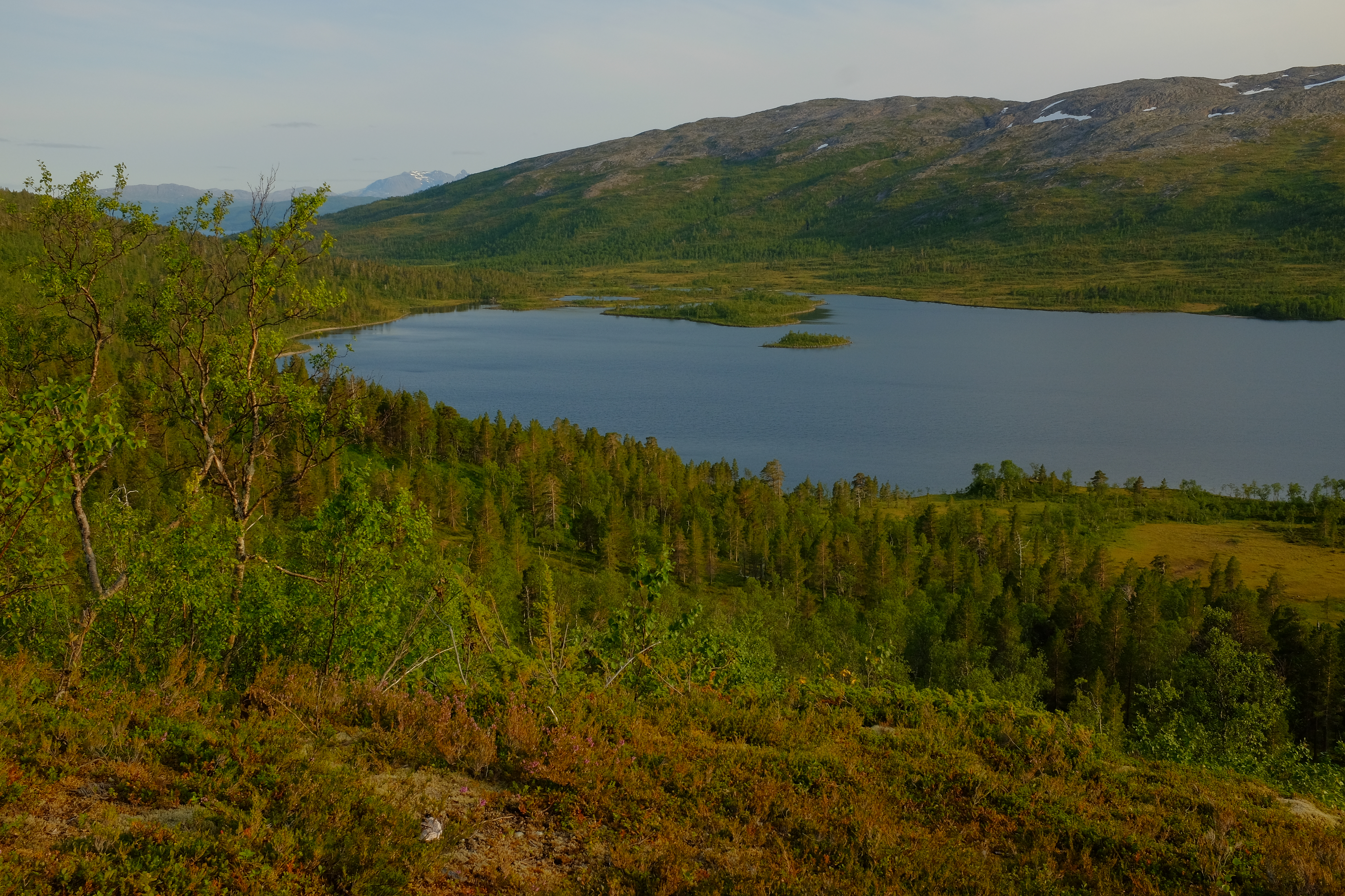 The Sender Valley on Senja is protected to preserve a diverse northern Norwegian coastal landscape. The National Park is an important area for biological diversity and has ancient cultural-historical traces that reflect the use of the area.